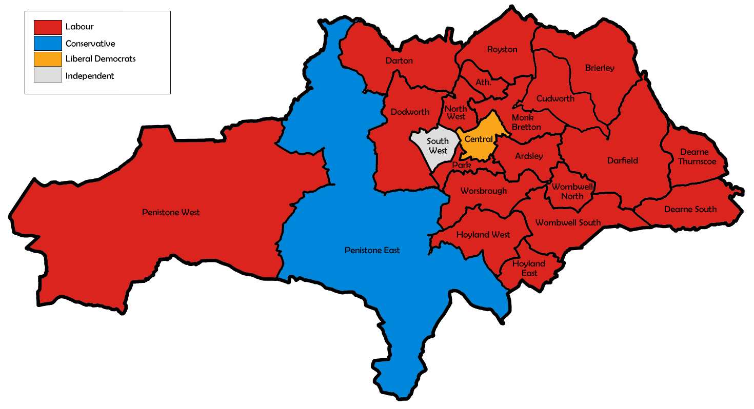 Ward map of Barnsley council with political colouring for the 1999 election.